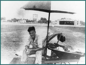 Archie William League is shown on duty in his summer office. Note the rolled-up flags in the wheelbarrow, and the dangling lunch box. His other equipment included a folding chair, drinking water, and a pad for taking notes.